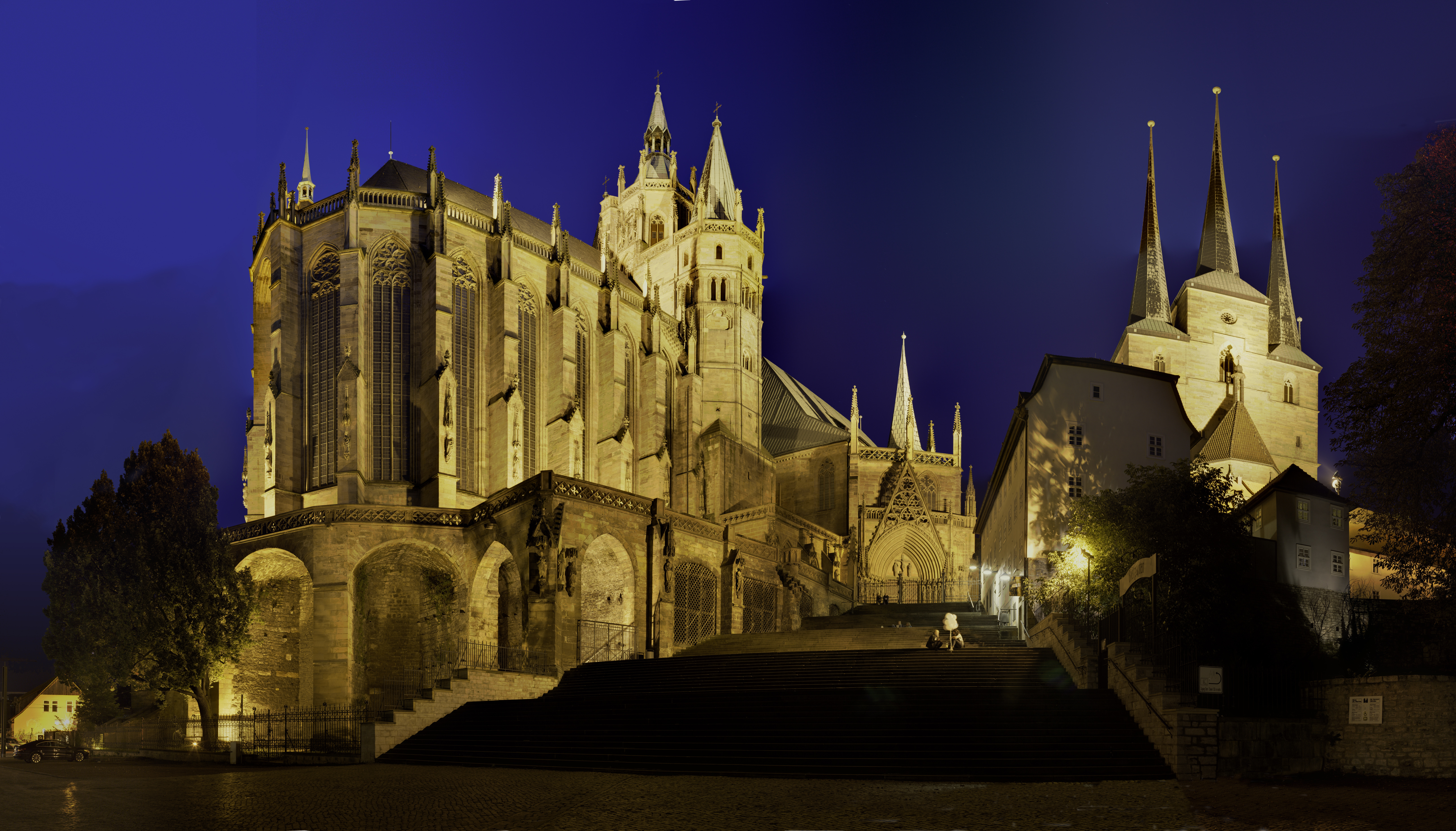 Erfurt cathedral